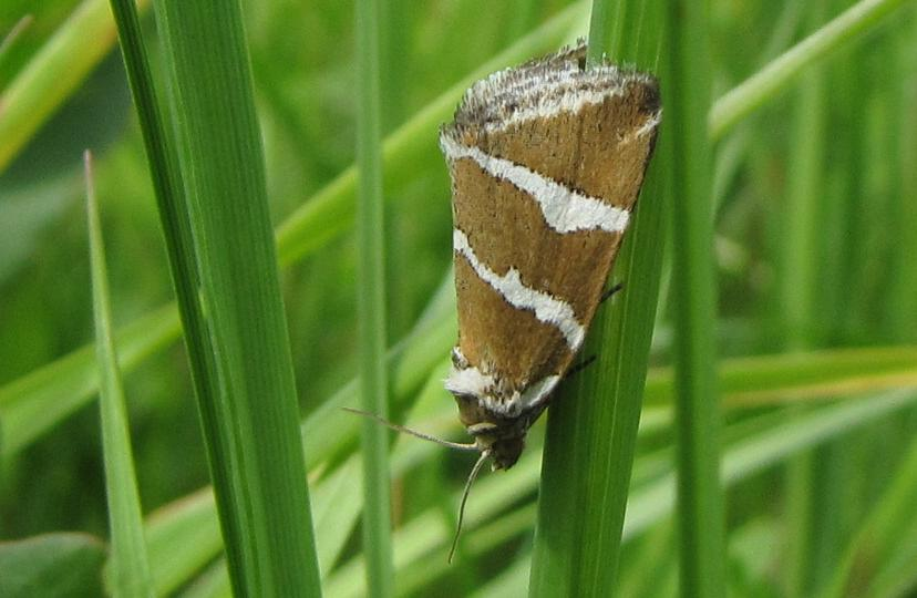 Deltote bankiana (Fabricius, 1775), Noctuidae, Lepidoptera, Rangsdorf, Brandenburg, Germany